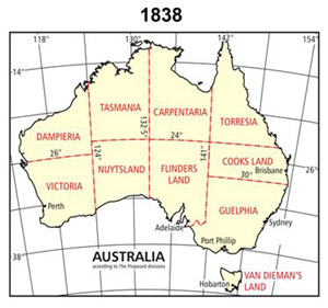 Map of the proposal for the division of Australia into states by James Vetch, originally published in 1838 by the Royal Geographical Society